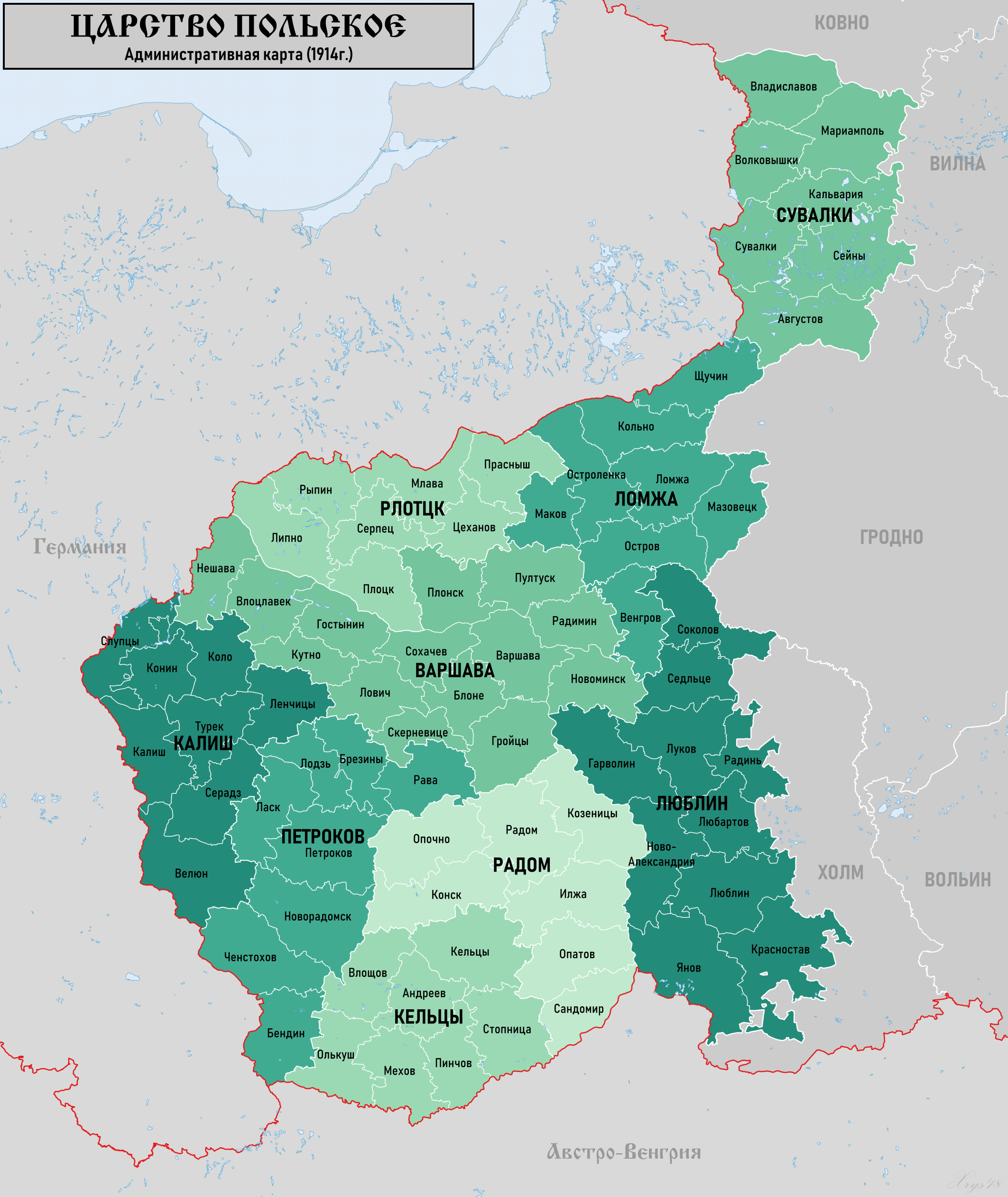 Russian language map of Congress Poland of the Russian Empire in 1914, showing the Governorates and Districts. Source Map Data: Специальная карта европейской России (1:420k), Ubersichtskarte von Mitteleuropa (1:300k), Mapa Krolestwa Polskiego (1:504K), courtesy of